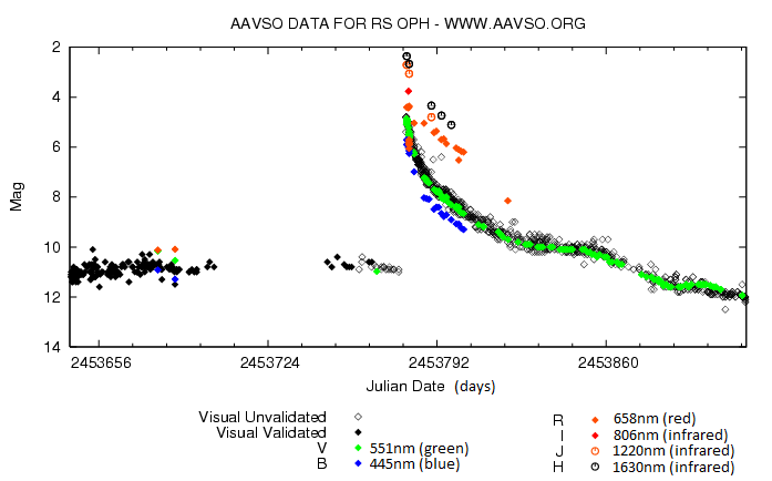 AAVSO light curve of RS Oph 2005 outburst in various bandpasses. Generated from and used with permission .